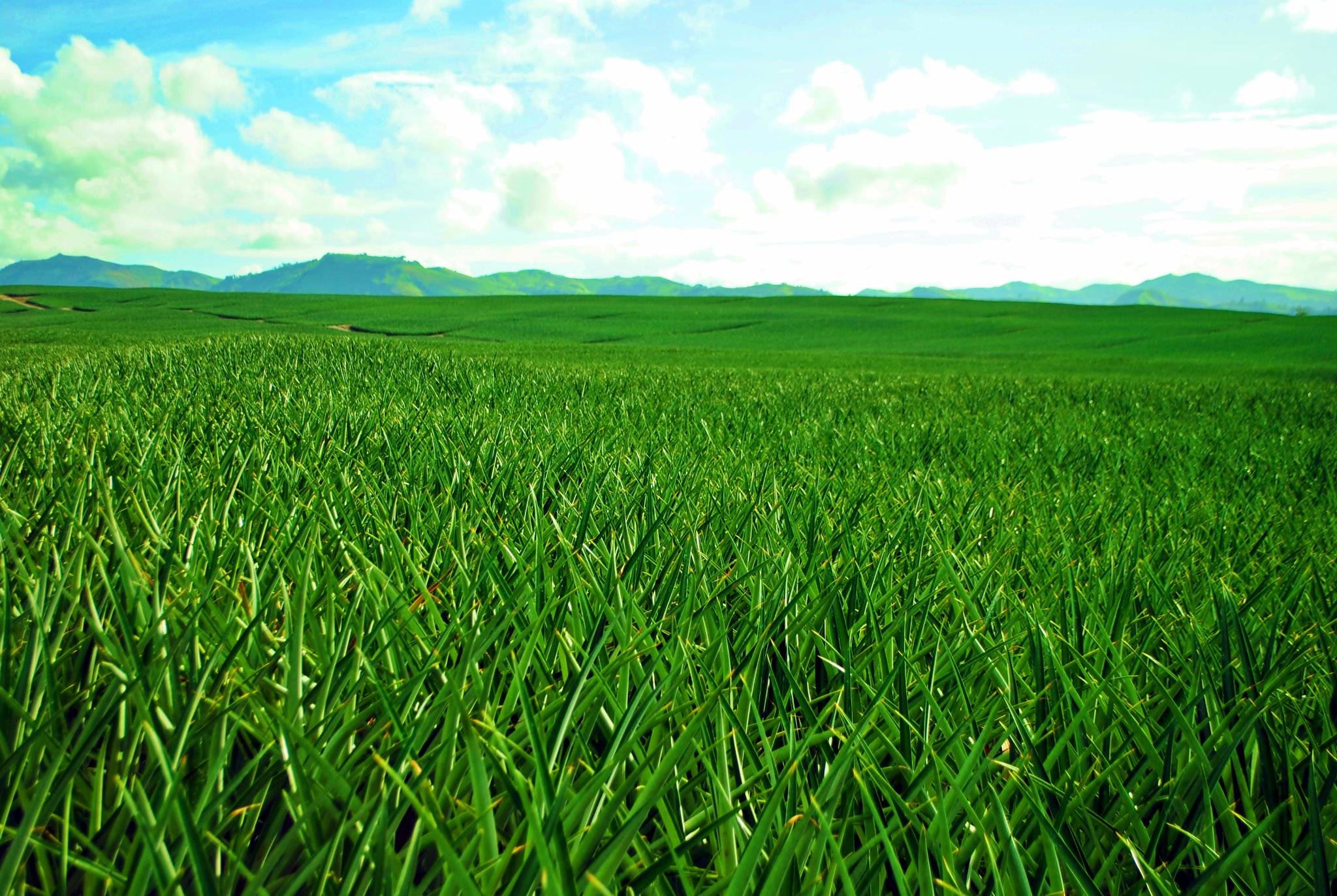 The Land of Pineapple Shore, the Municipality of Polomolok.